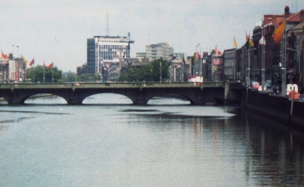 View of River Liffey Dublin. Picture taken in 1982. Crop of original